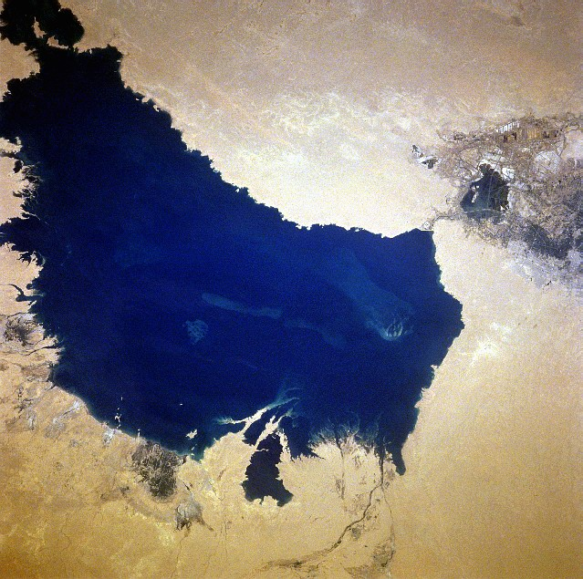 Lake Milh, also known as the Sea of Salt, can be seen in this northeast-looking view. Located west-southwest of Baghdad, Lake Milh is a depression in which excess water from the Euphrates River, is diverted by a controlled escape channel or canal. The lake is rather shallow and water levels change with the seasons. Due to the salts and the changing water levels, few recreational areas exist around the lake.